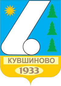 Kuvshinovo (Tver oblast), soviet proposal coat of arms